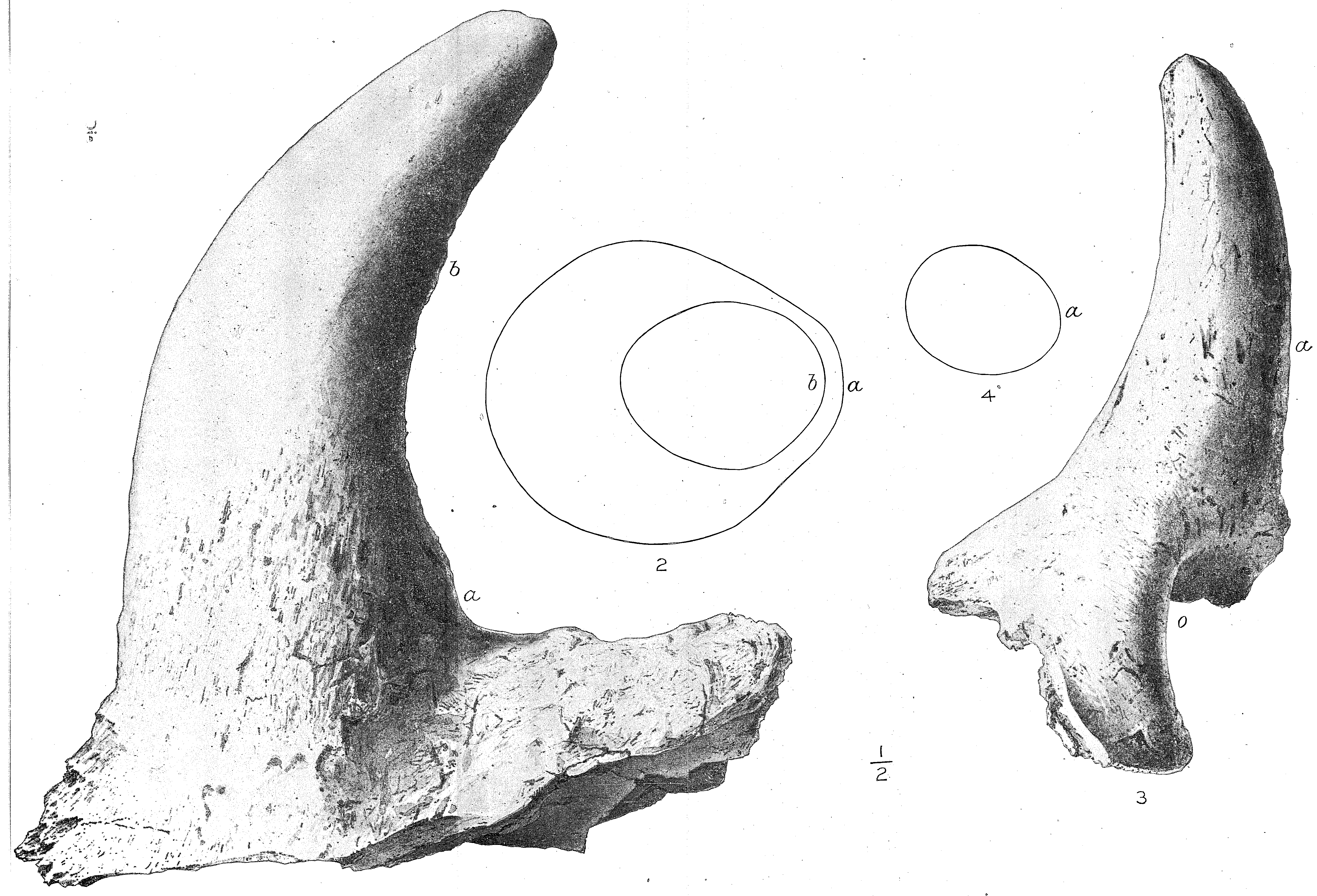 Eoeratops canadensis (formerly Ceratops) horn cores.